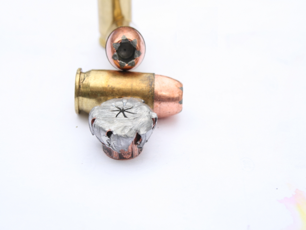 A Modern 230-Grain Jacketed Hollow Point Bullet Recovered From Raw Beef.